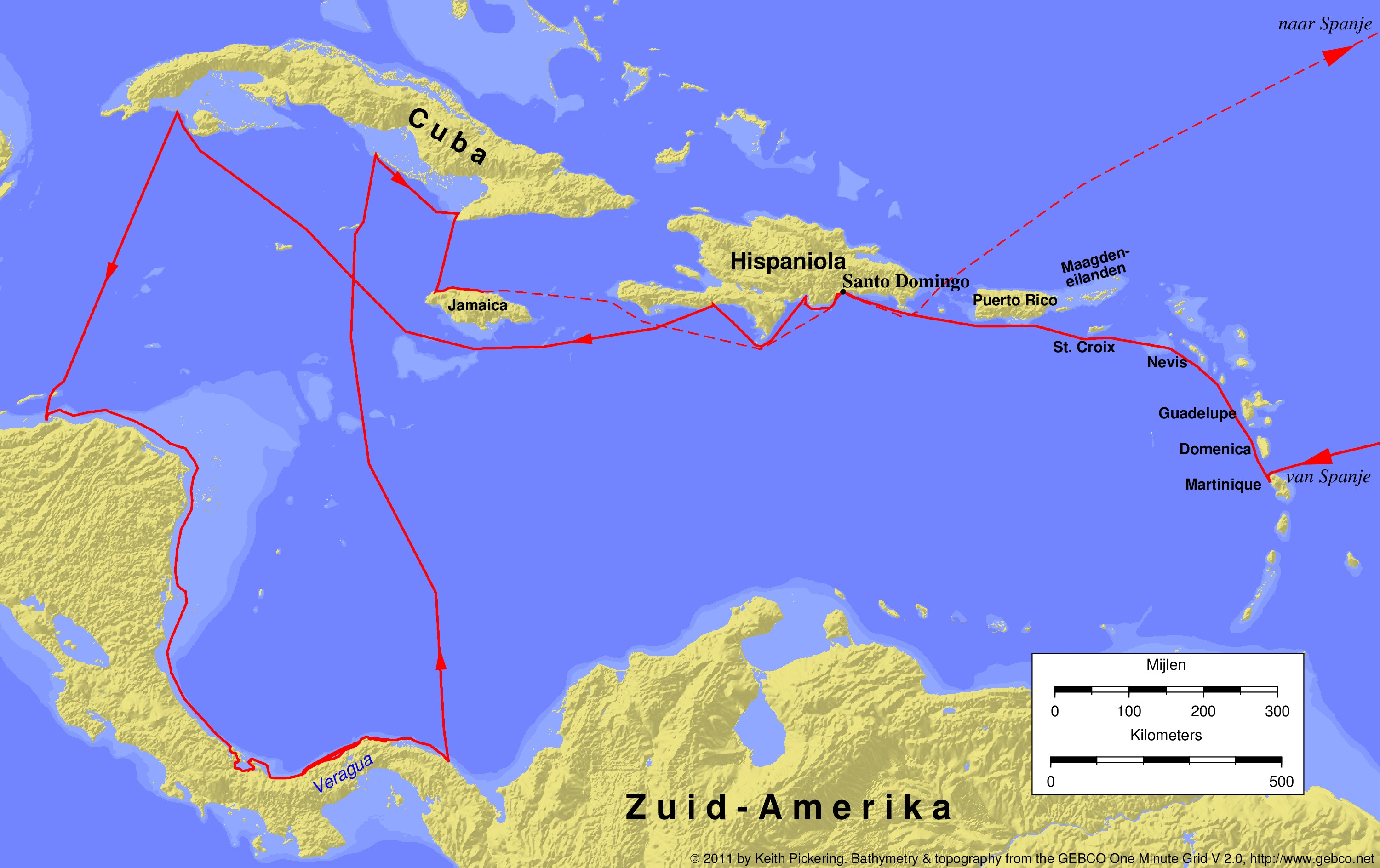 Map of the fourth voyage of Christopher Columbus